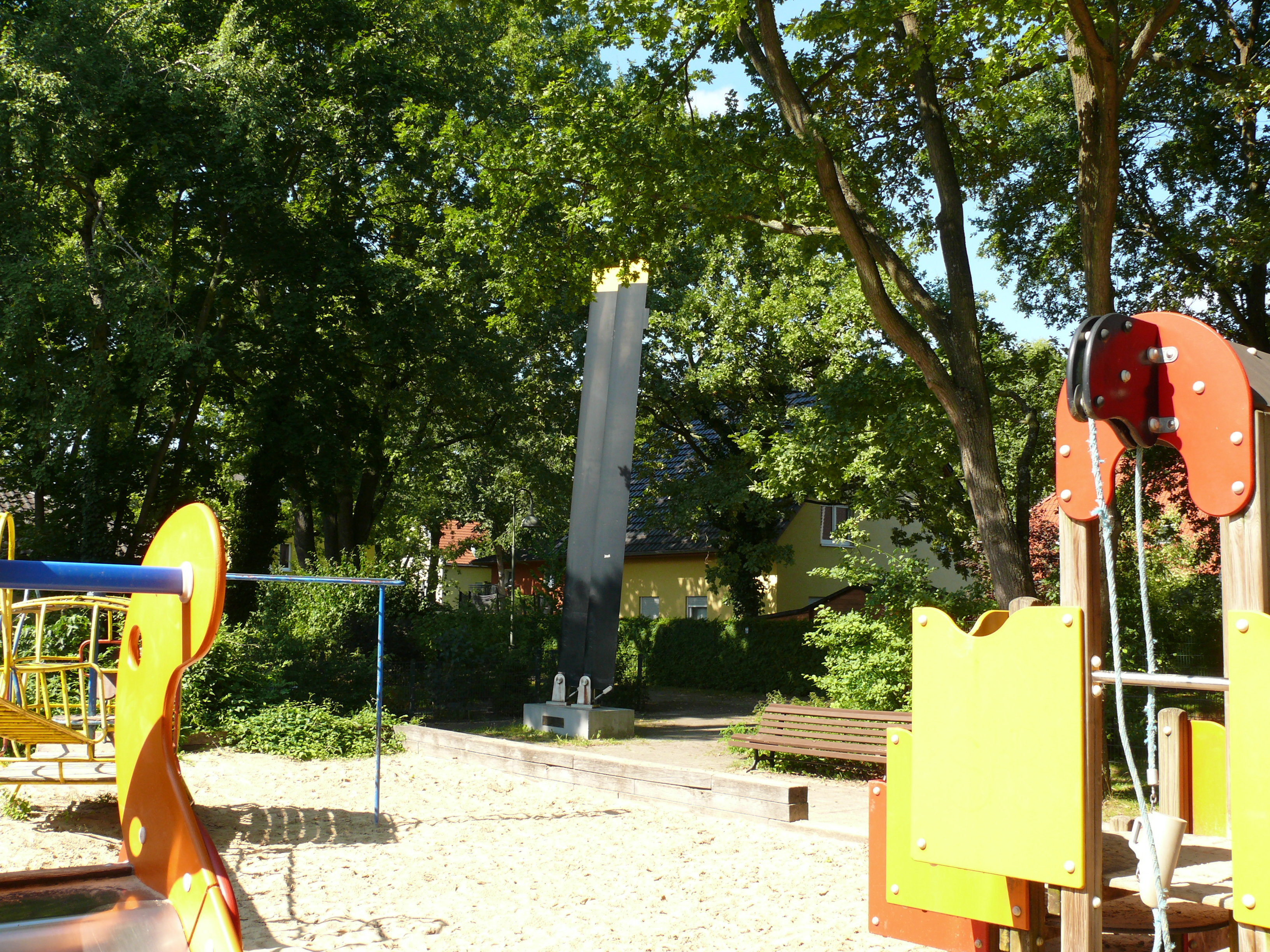 Berlin-Wannsee Am Landeplatz